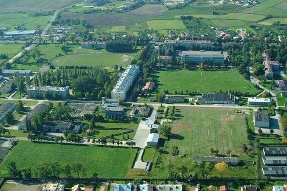 Widok współczesny na obiekt koszarowy byłego 64 LPS